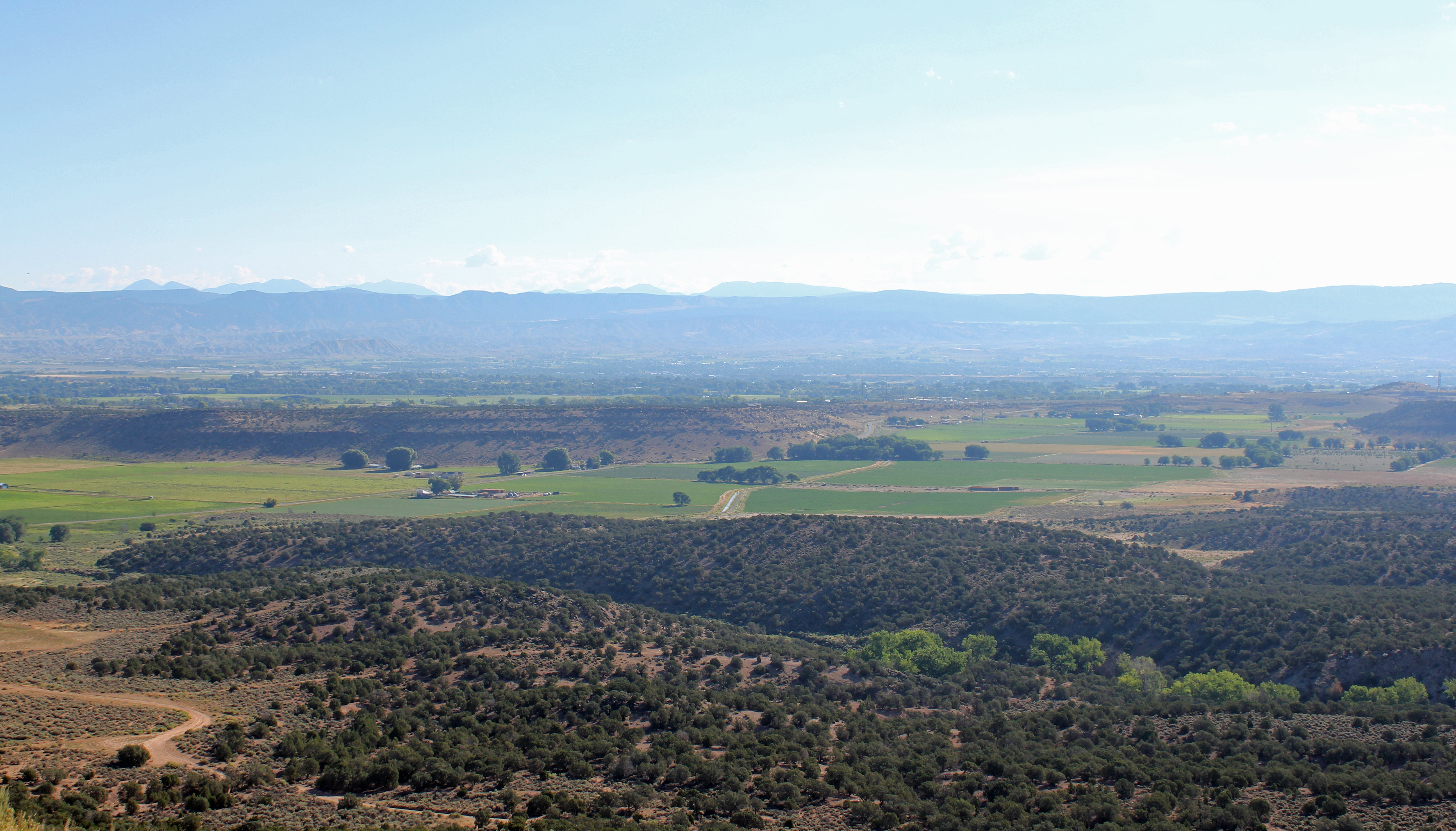 The Uncompahgre Valley in Montrose County, Colorado. The view is to the east from a bluff overlooking Montrose, Colorado.